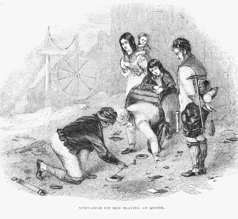 Newcastle Miners playing Quoits